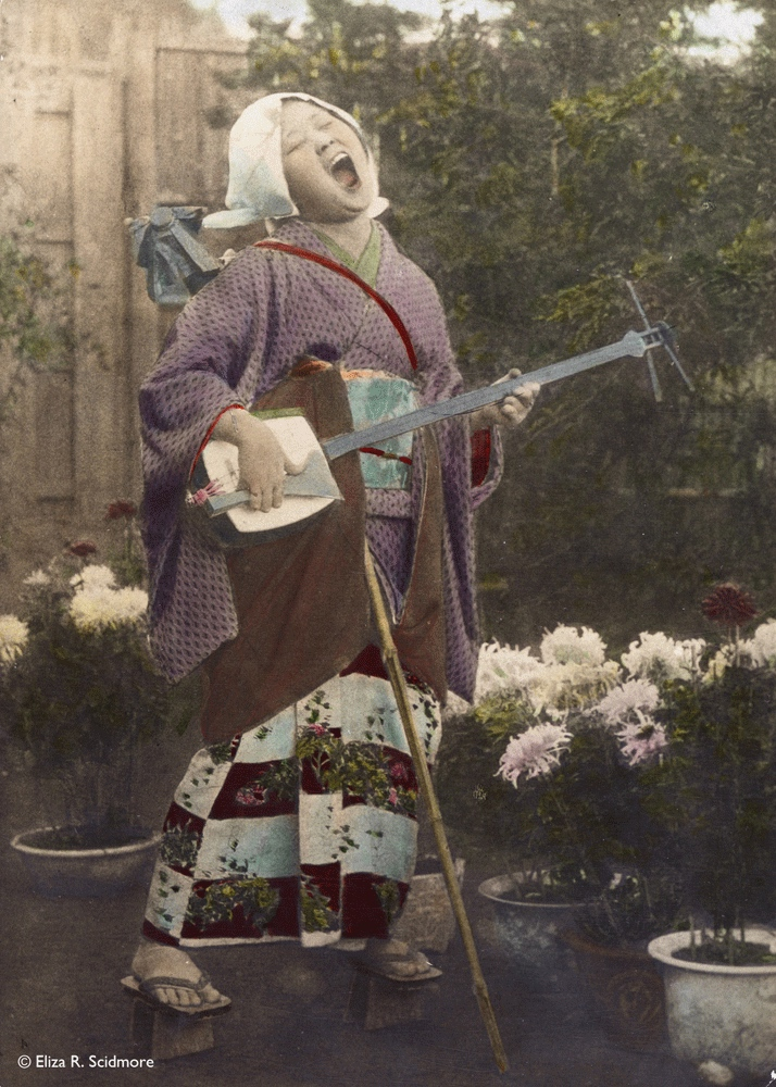 Goze Singing in Chrysanthemum Garden